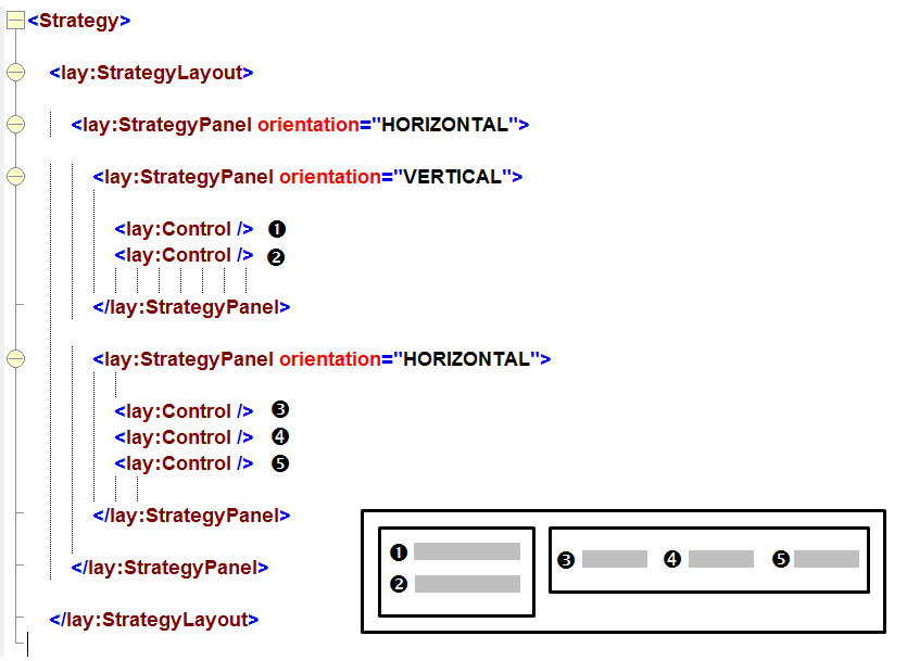 Graphic showing how StrategyPanels are used in FIXatdl 1.1